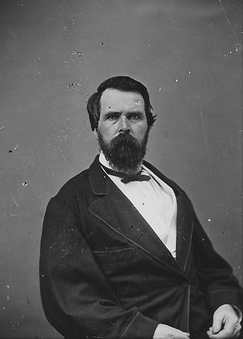 John Bidwell